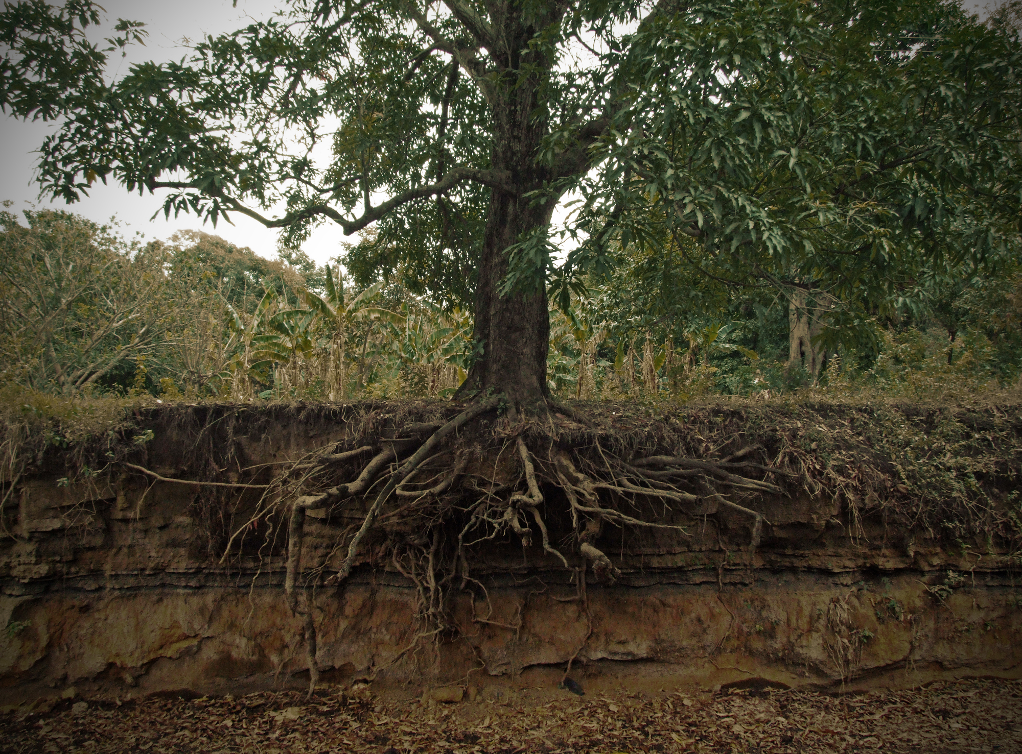 Exposed roots on a mango tree